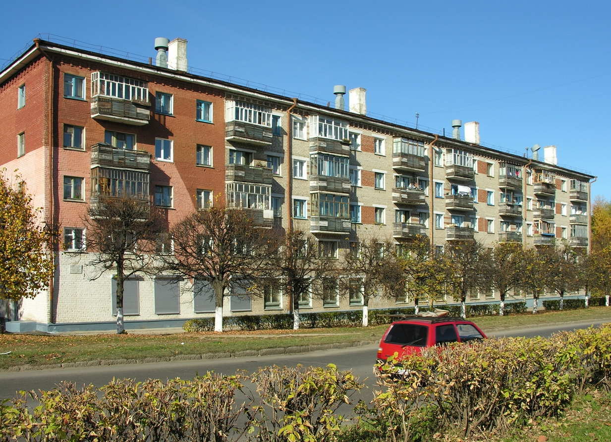 Cheboksary, Russia - Residential area